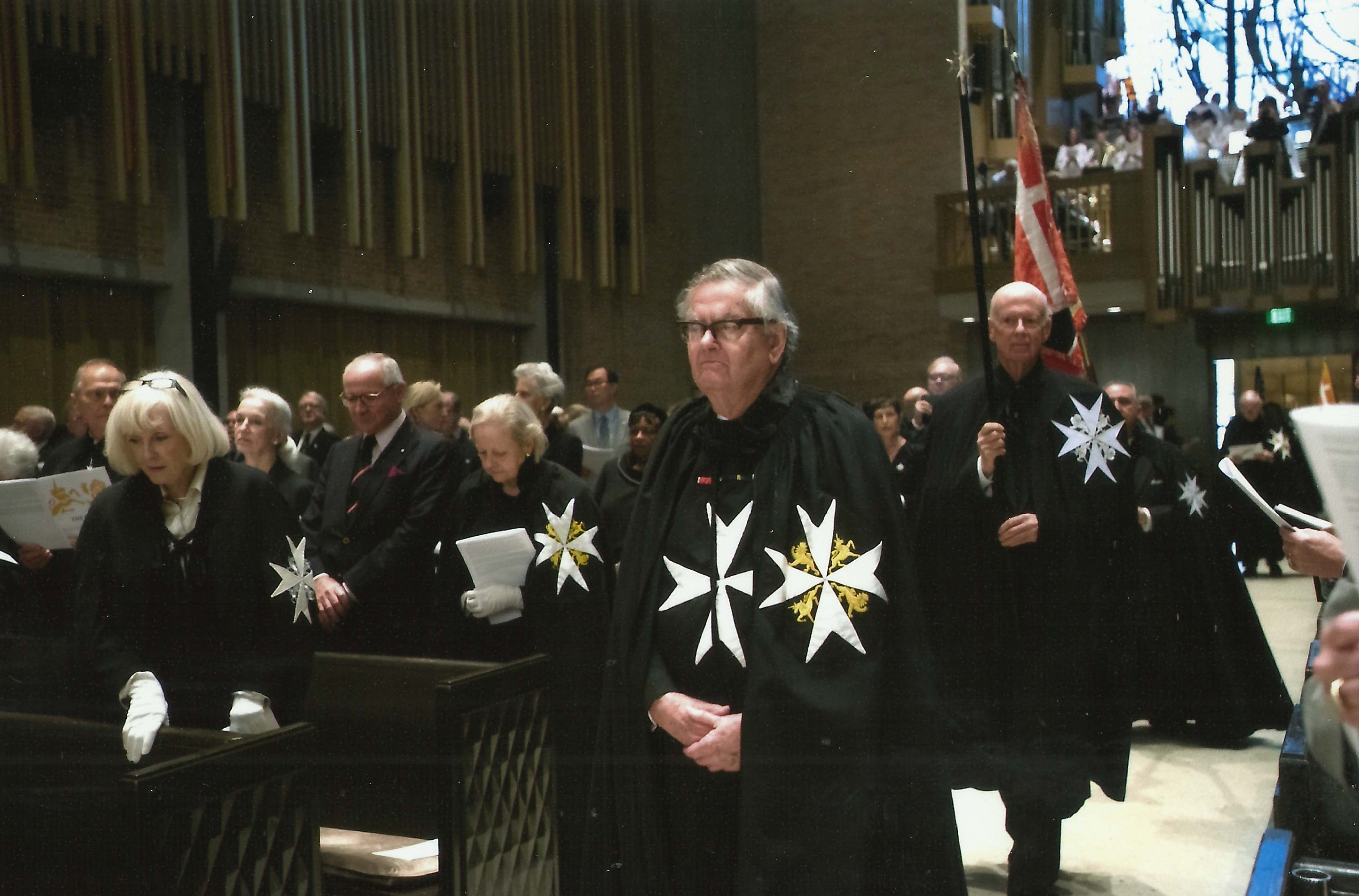 Professor Anthony Roger Mellows, former Lord Prior of the Most Venerable Order of the Hospital of Saint John of Jerusalem processing at the Investiture Service of the Priory in the United States at Saint Michael and All Angels Episcopal Church in Dallas, Texas, United States of America. I took this photograph during the service.